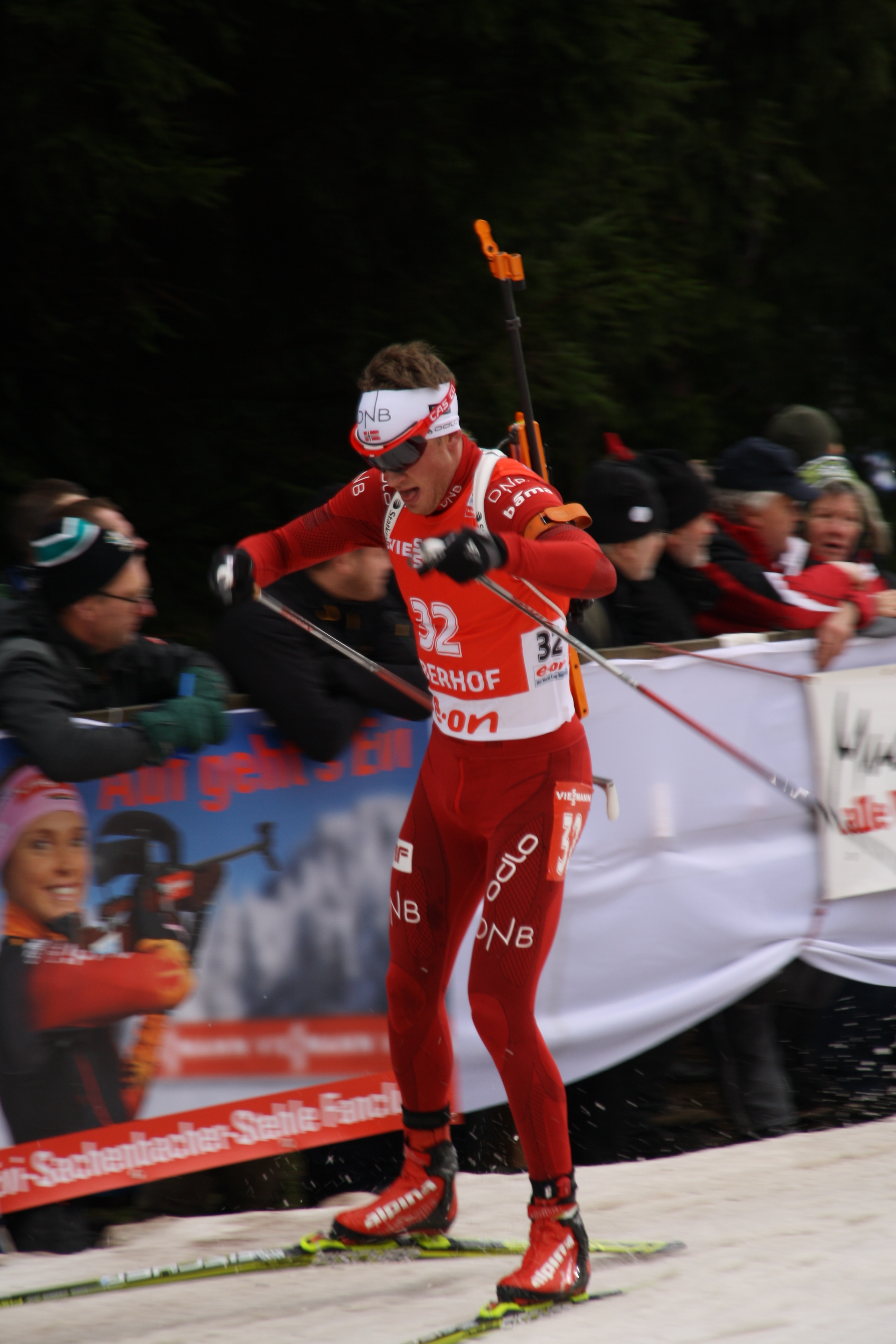 Biathlon World Cup Oberhof 2014 - Mens Pursuit